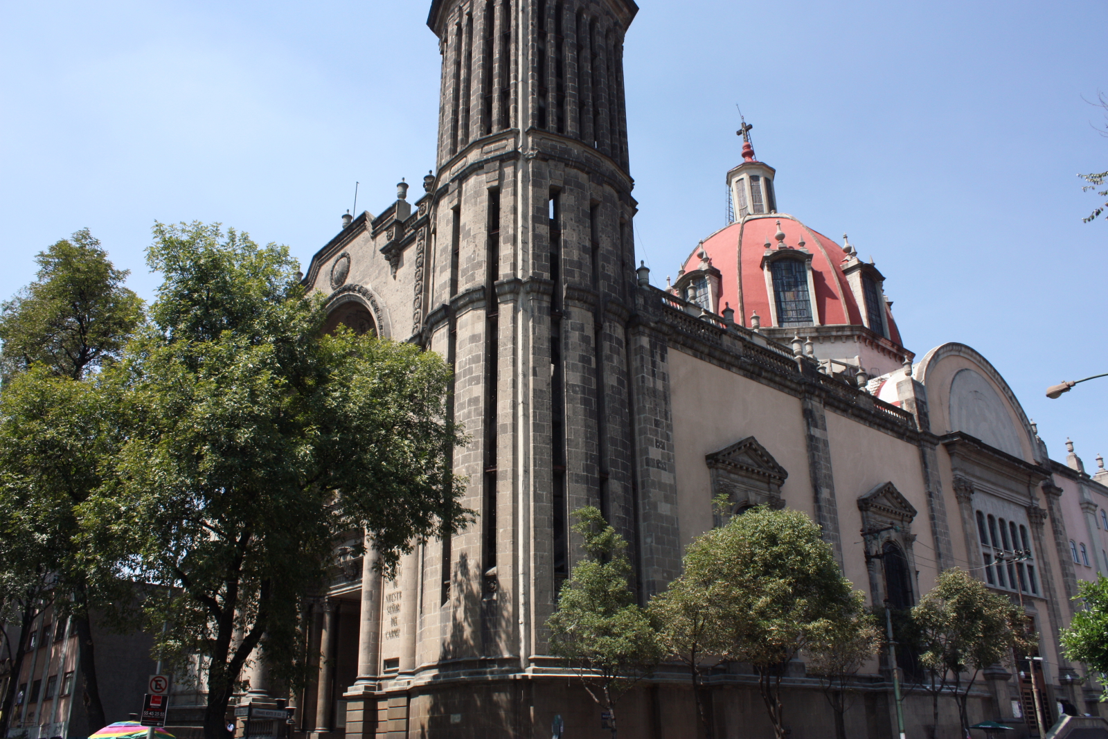 Santuario Parroquial de Nuestra Señora del Carmen "La Sabatina", col. San Miguel Chapultepec, Del. Miguel Hidalgo, México D.F. Mexico